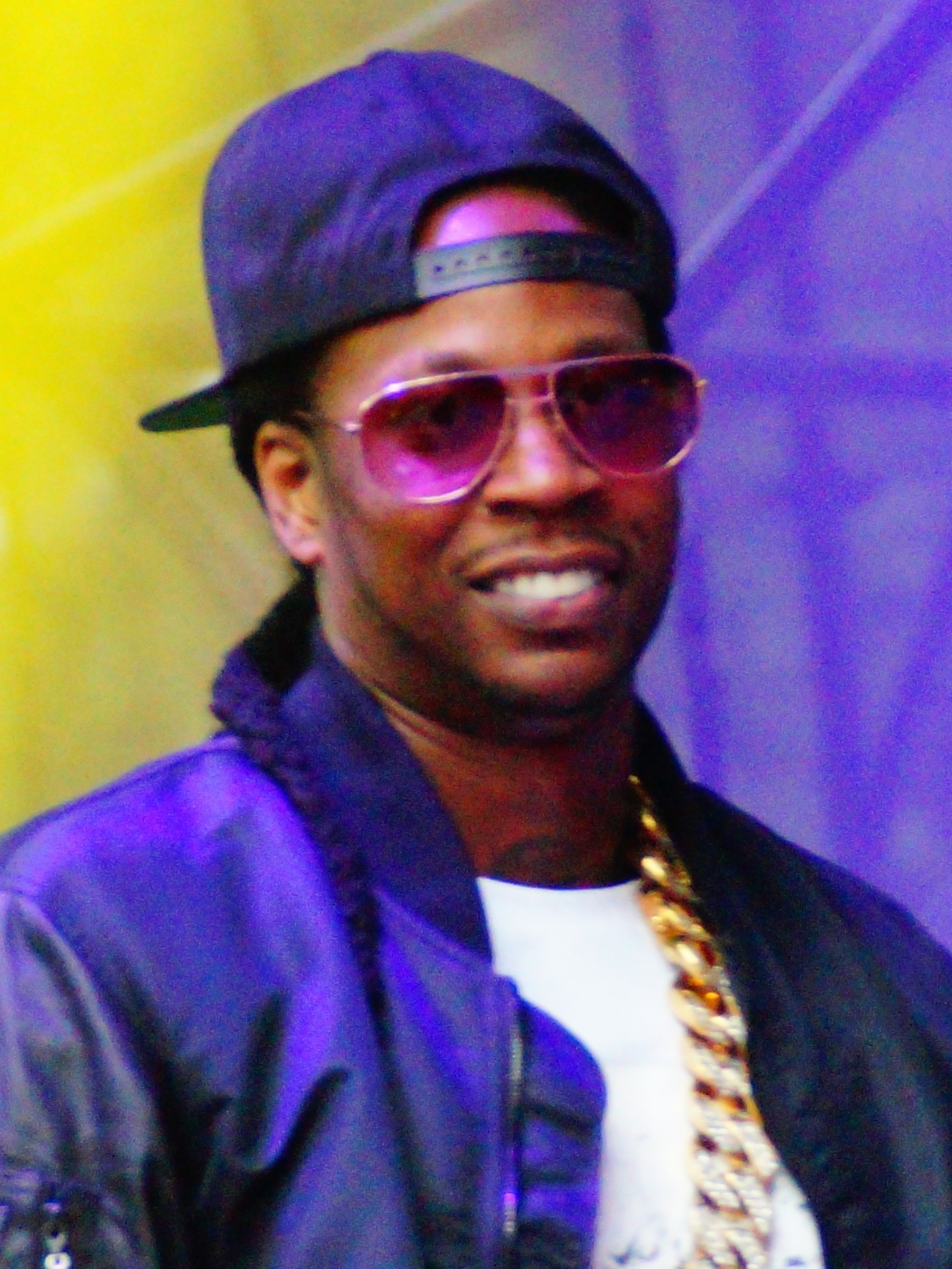 2 Chainz in May 2014